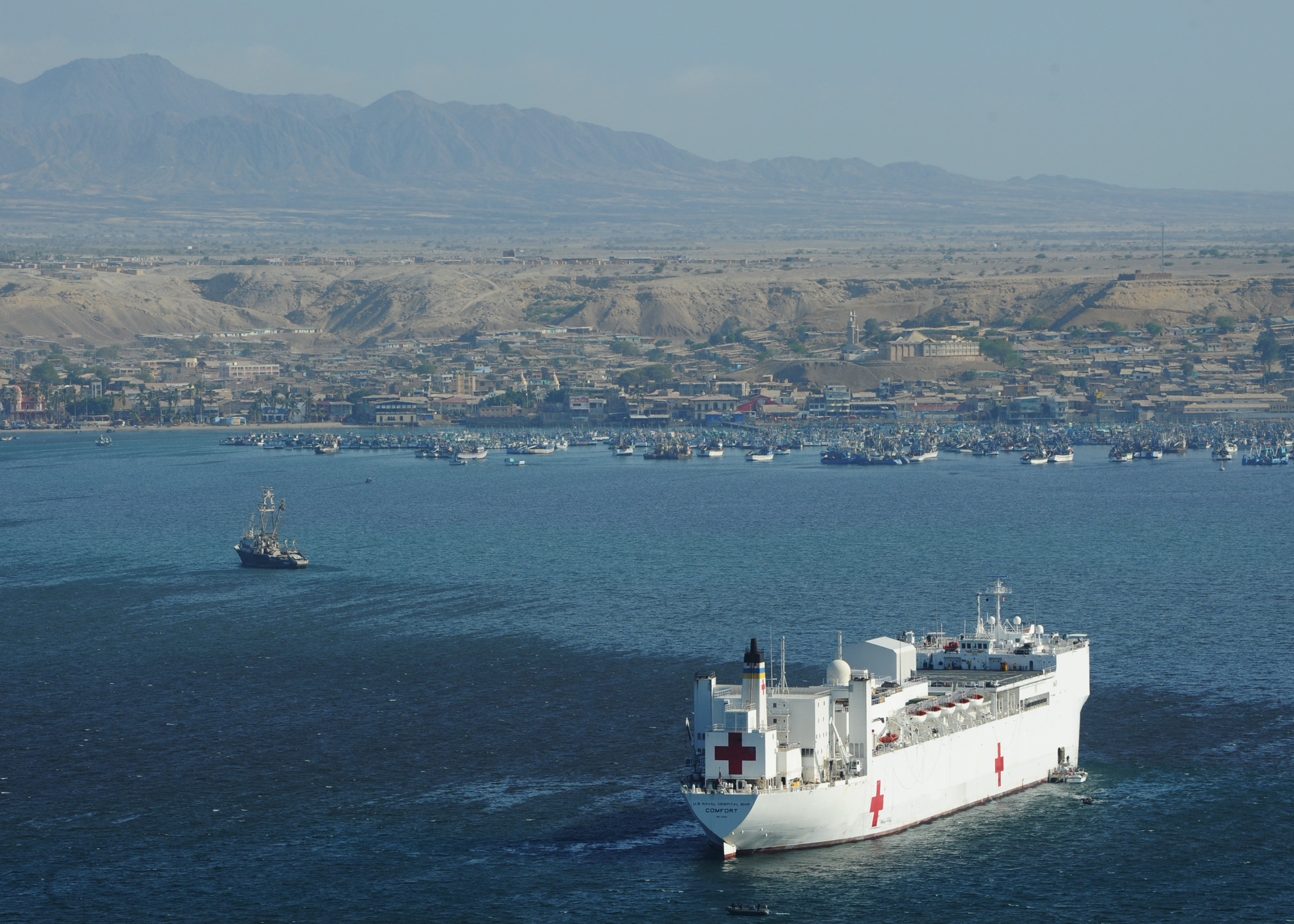 PAITA, Peru (April 30, 2011) The Military Sealift Command hospital ship USNS Comfort (T-AH 20) is anchored off Paita, Peru during a Continuing Promise 2011 port visit. Continuing Promise is a five-month humanitarian assistance mission to the Caribbean, Central and South America. (U.S. Navy photo by Mass Communication Specialist 2nd Class Eric C. Tretter/Released)